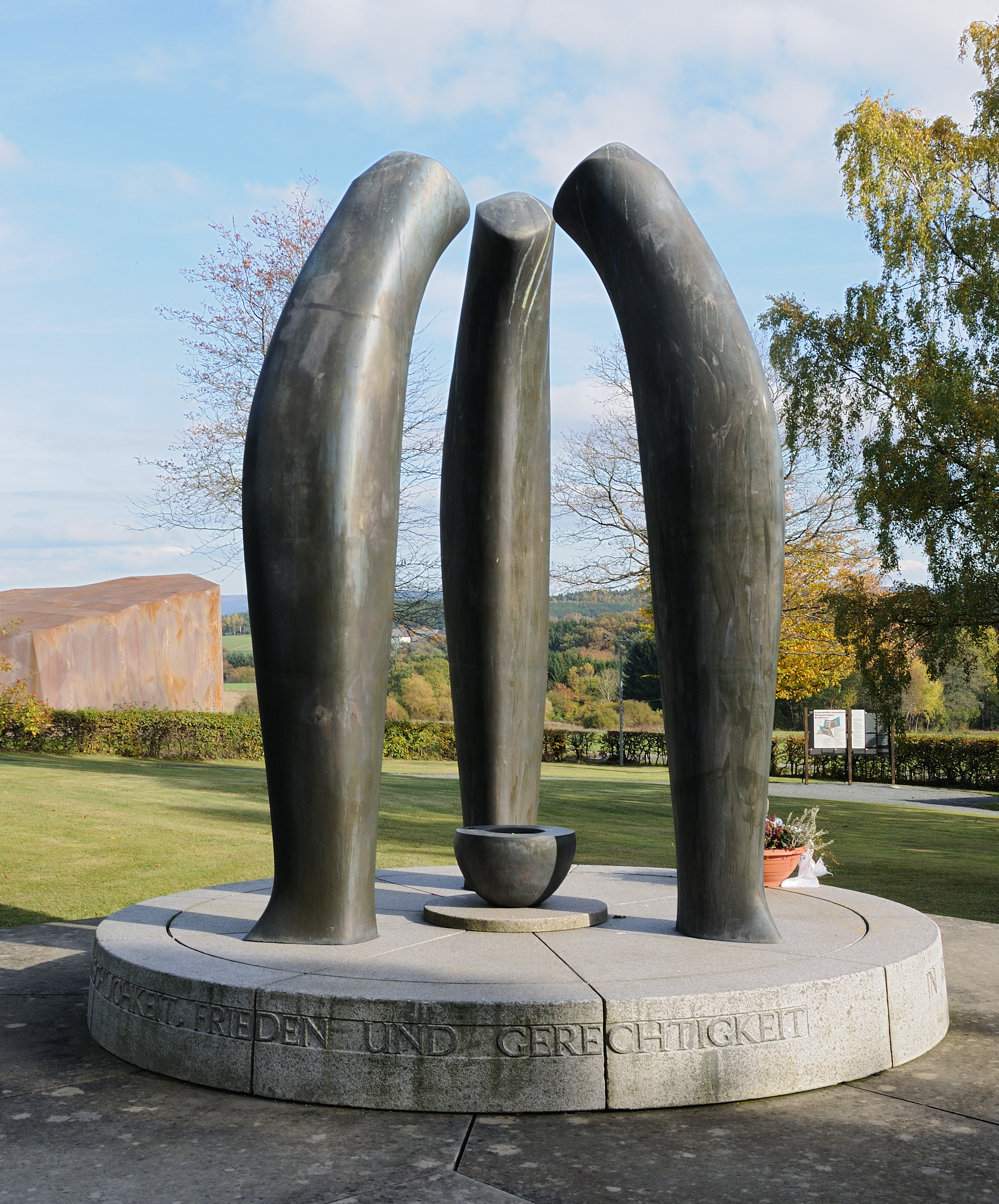 Hinzert Concentration Camp Memorial. Sculpture (1977) by Lucien Wercollier (1908-2002), who was himself in 1942 a political prisonner in that camp.